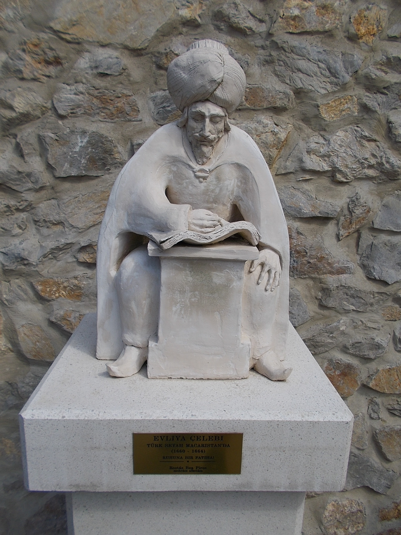 Statue of Evliya Celebi close to the Castle of Eger in a small memorial park. By Piros Rostás Bea (2014). - Eger, Heves County, Hungary.